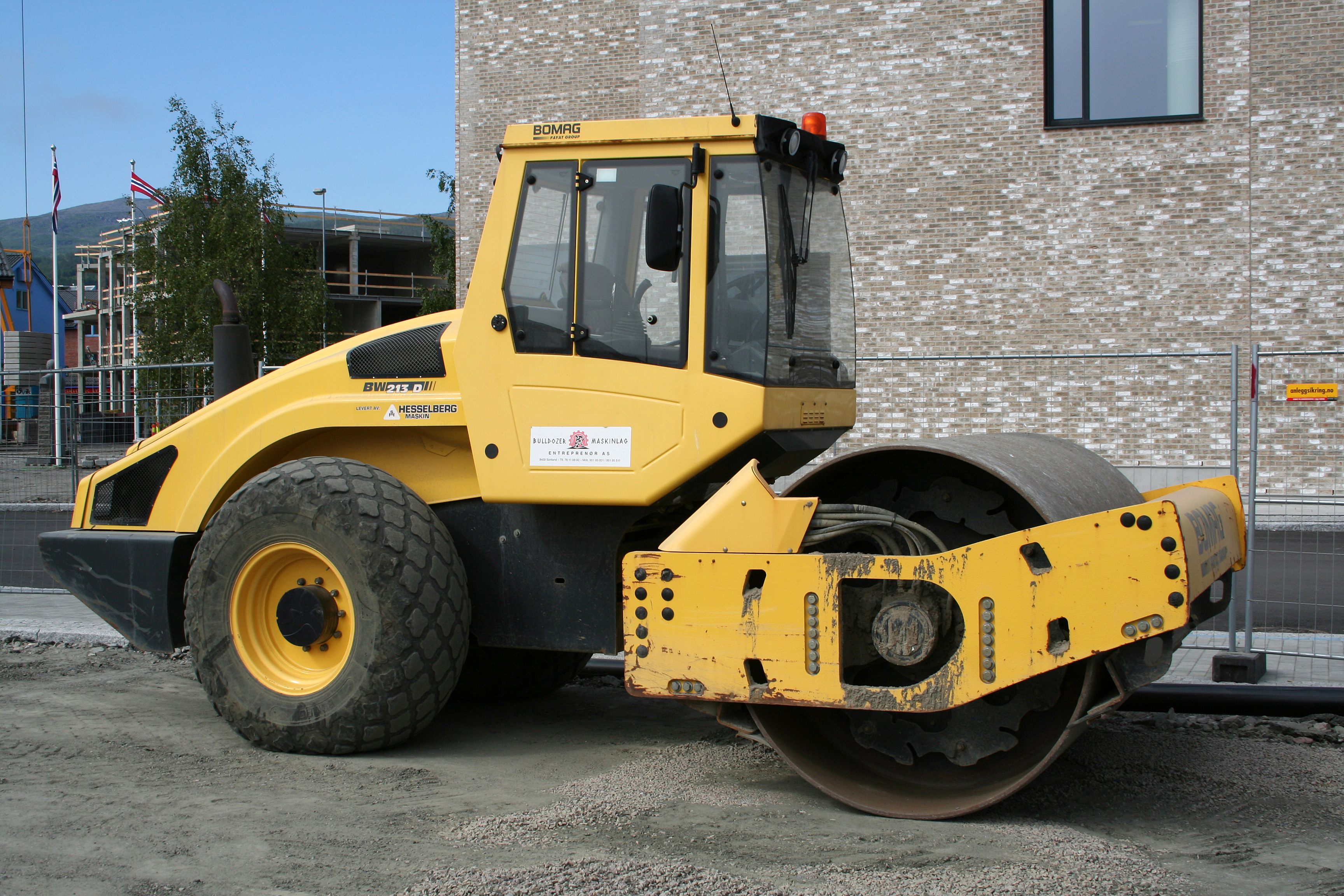 A Bomag BW 213 D road roller in Sortland, Norway